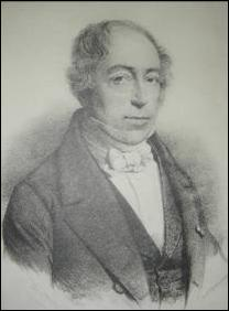 Guillaume de Viron (1791-1857)